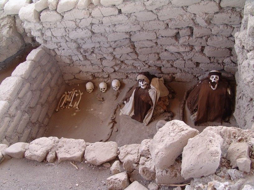 Nazca burial place